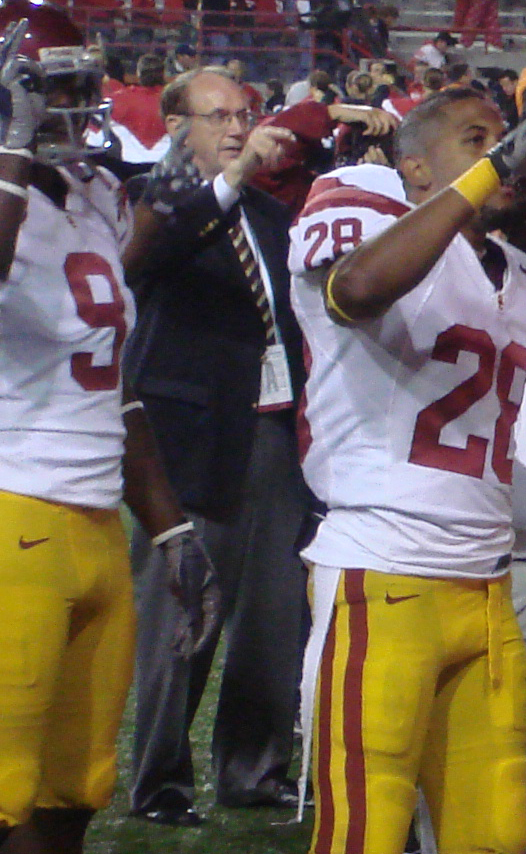 USC President Steve Sample stands among the USC Trojan football team on the field as they celebrate a victory over Nebraska. He is making the traditional USC Trojan "V" for victory hand sign.